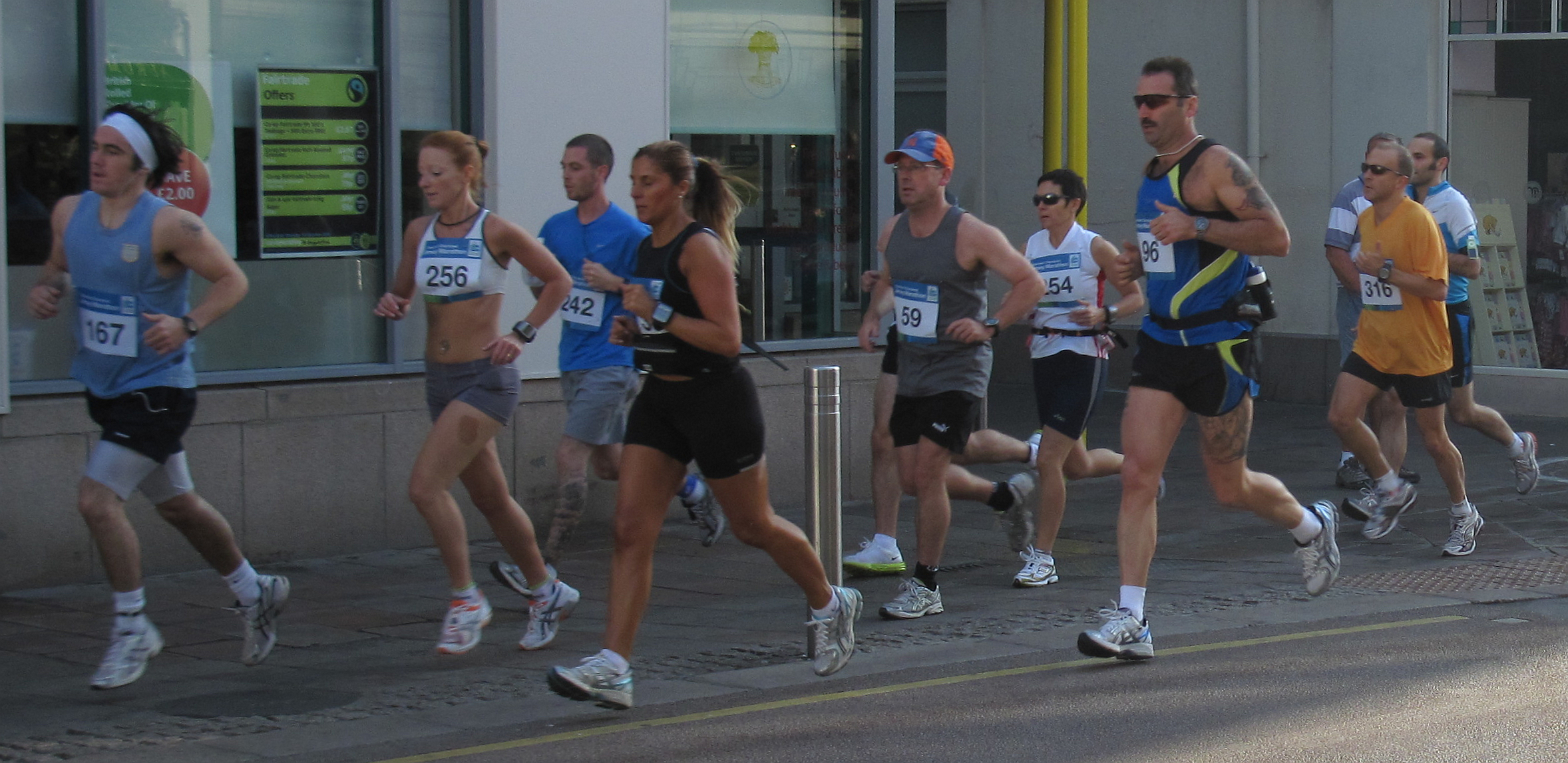 Jersey Marathon, 27 September 2009